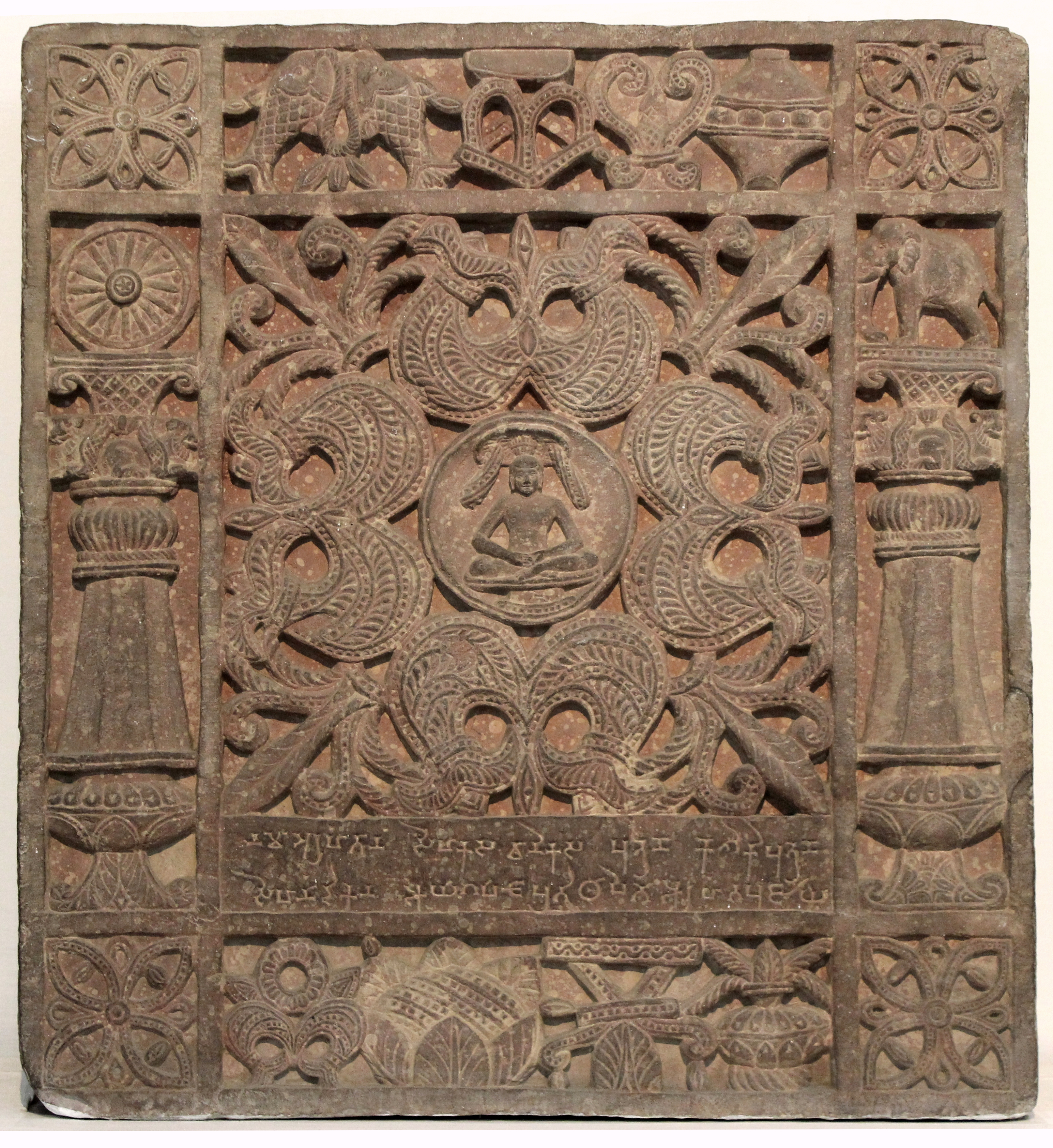 "Sihanamdika ayagapata", Jain votive plate, Kankali Tila, Mathura dated 25-50 CE